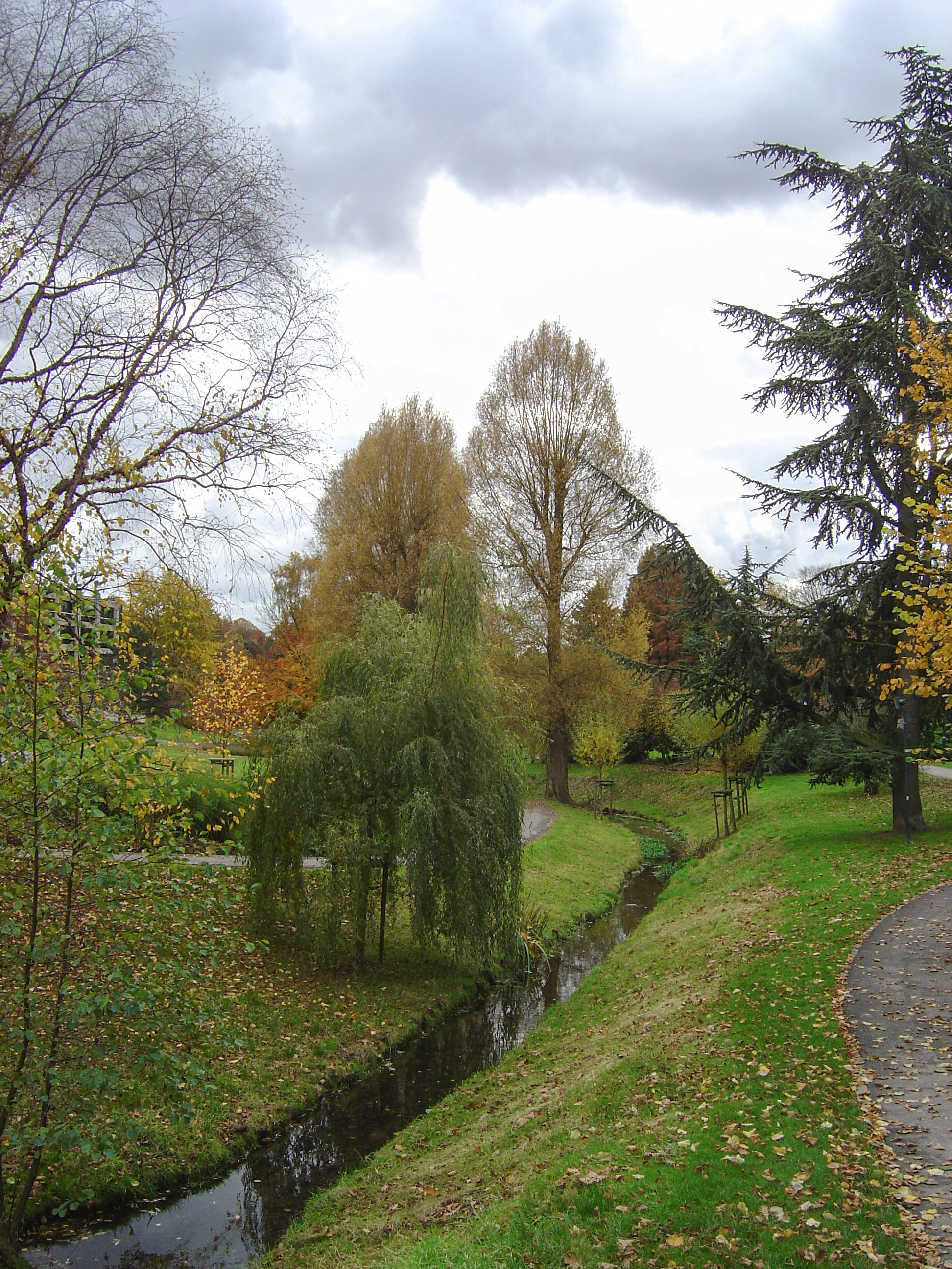 Parc Seny, next to Parc Tenreuken